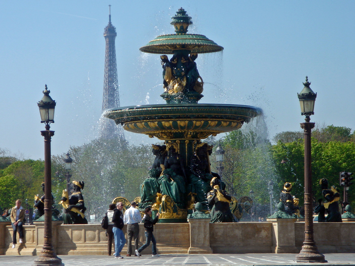 Fontaine de la place de la Concorde, with Eiffel Tower in the background, Paris, France